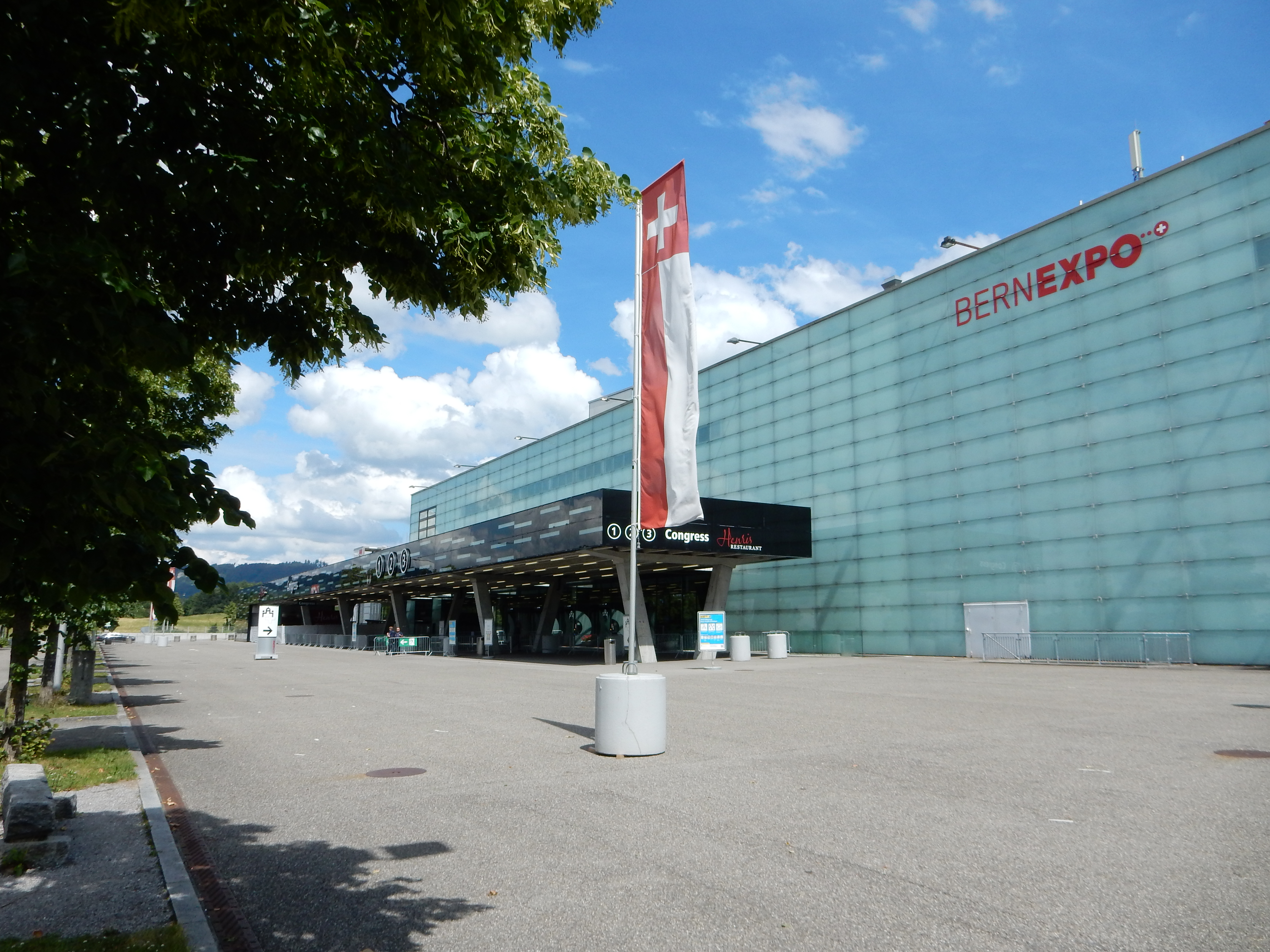 Sessions of the Swiss Federal Assembly during the COVID-19 pandemic